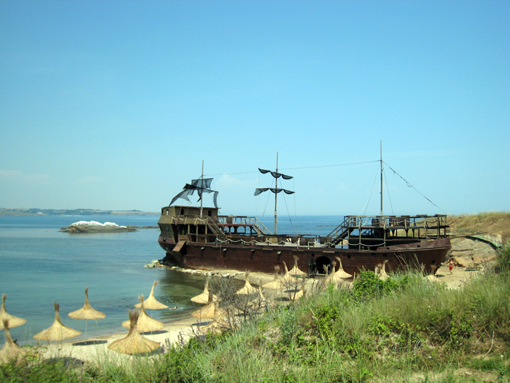 The beach of Ahtopol, Bulgaria